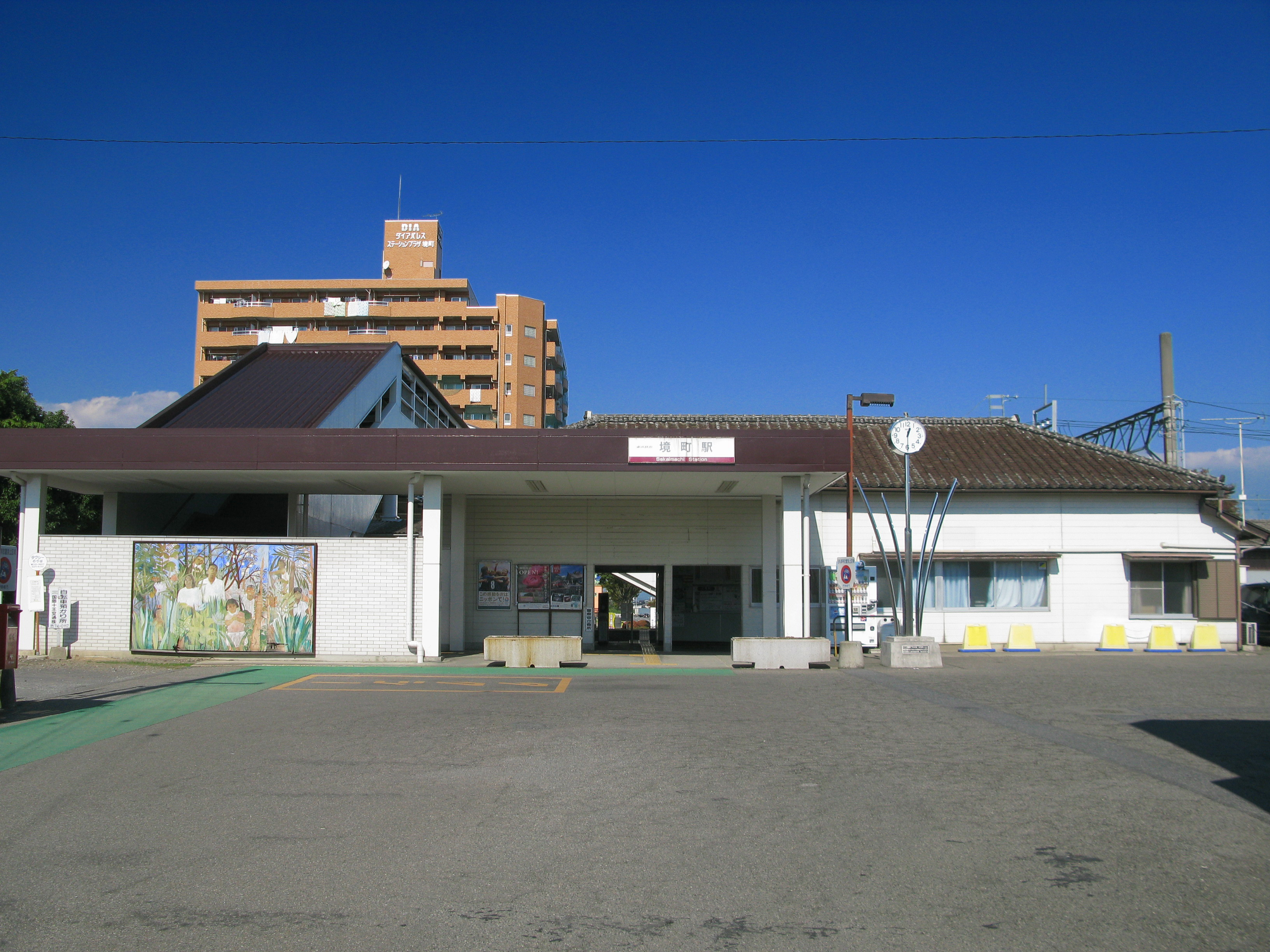 Sakaimachi Station of the Tōbu Isesaki Line, Isesaki, Gunma, Japan